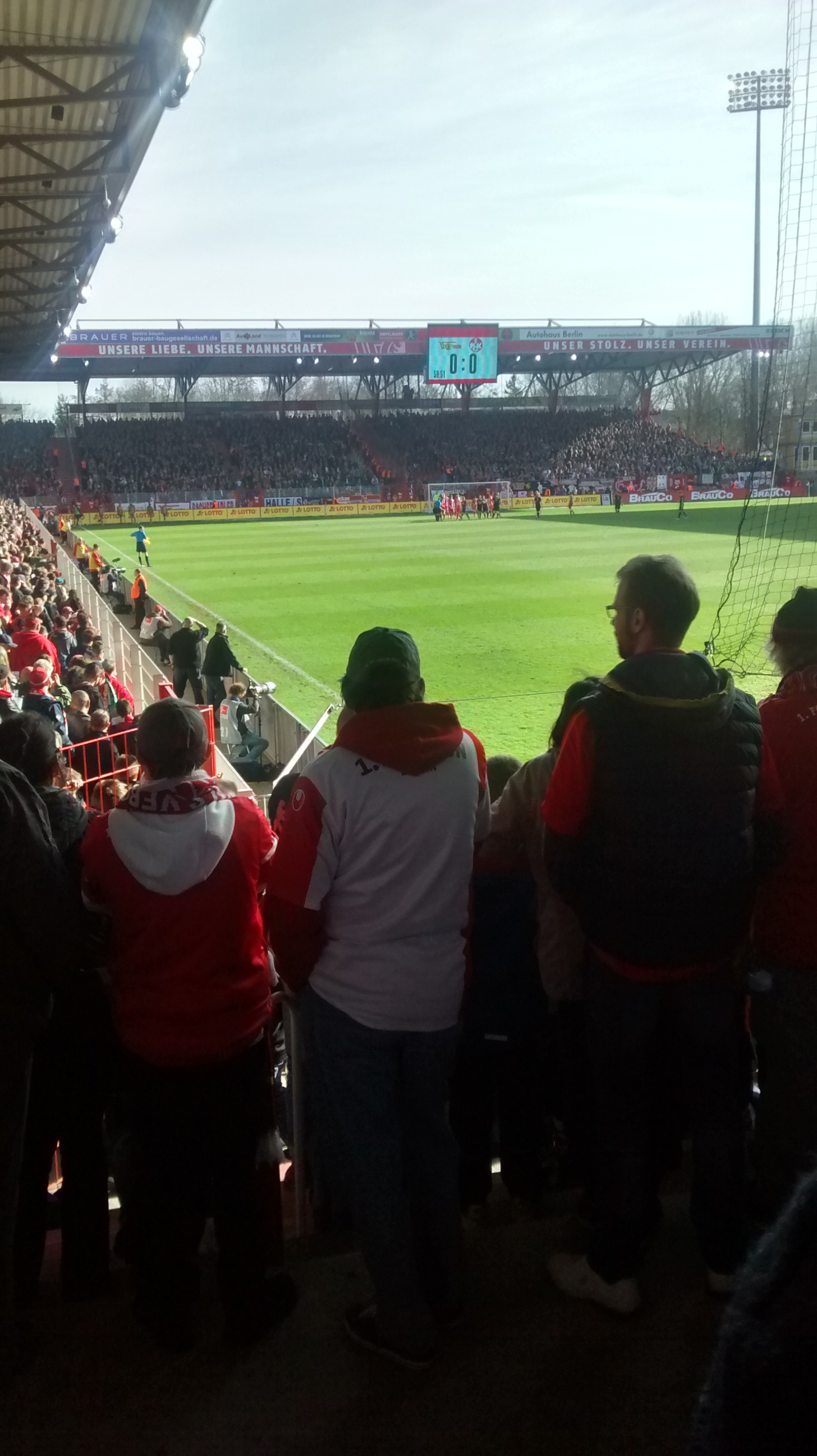 ‘Sektor 4′ – Wuhleseite at the Alte forsterei, Berlin